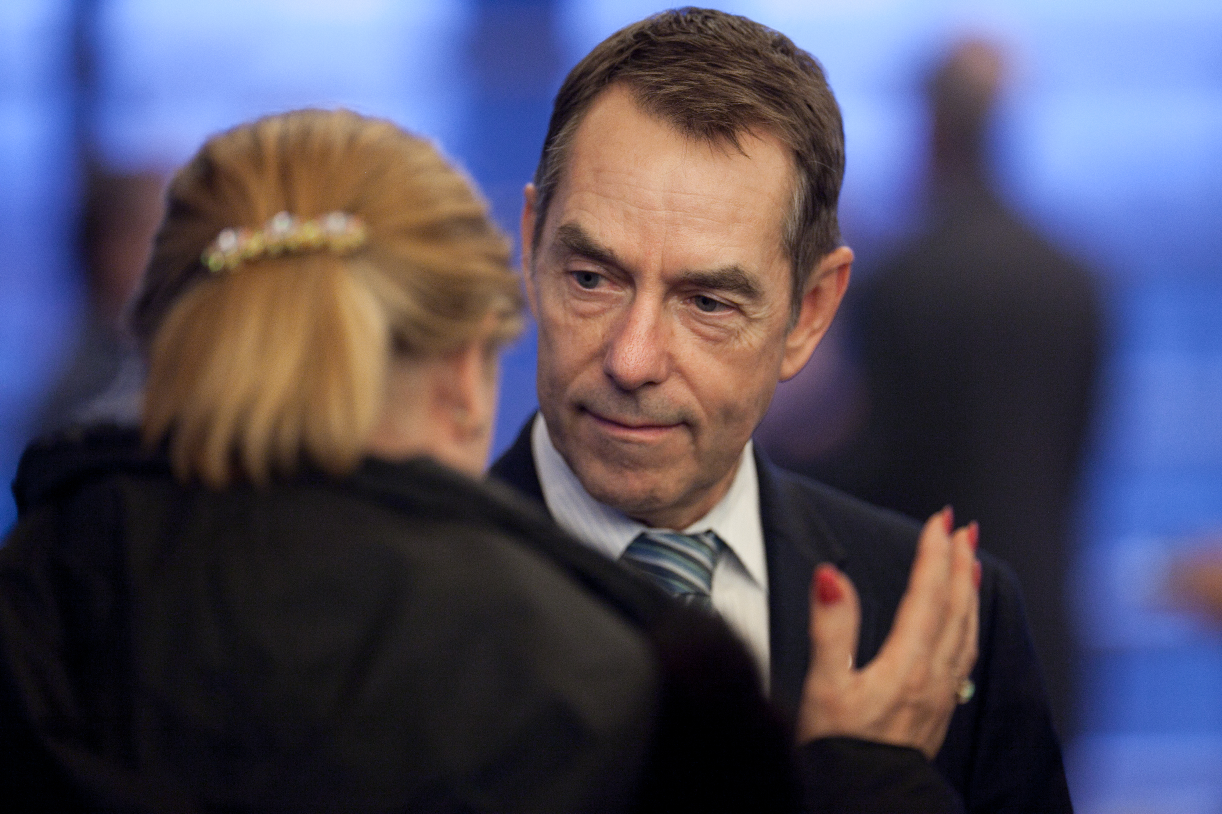 Tom Rasmussen at his 2012 inauguration for Seattle City Council.